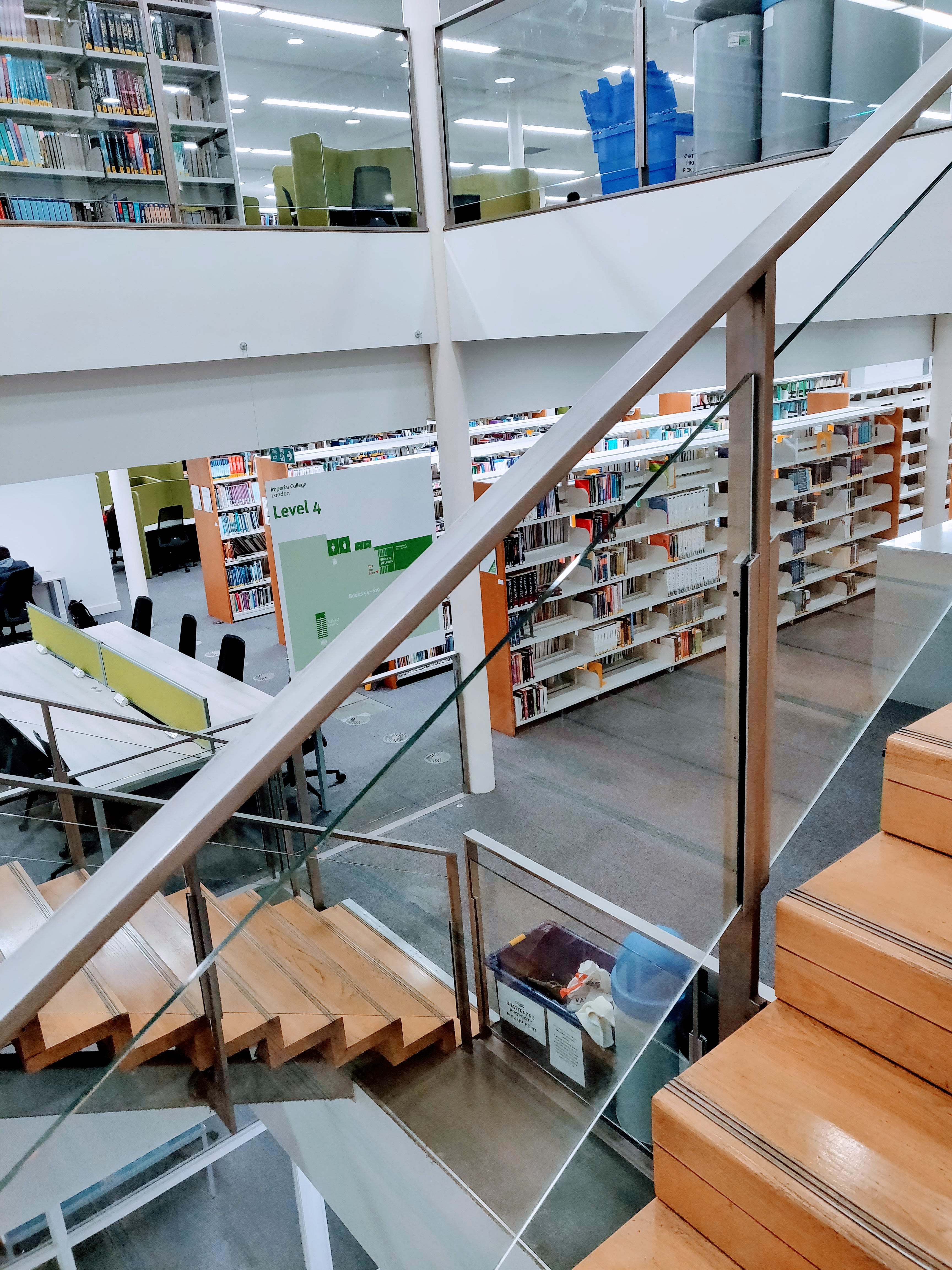 The fourth floor of Imperial College Central Library, looking from the main stairwell. The fourth and fifth (also pictured, top) floors were added as part of a modern extension to the library